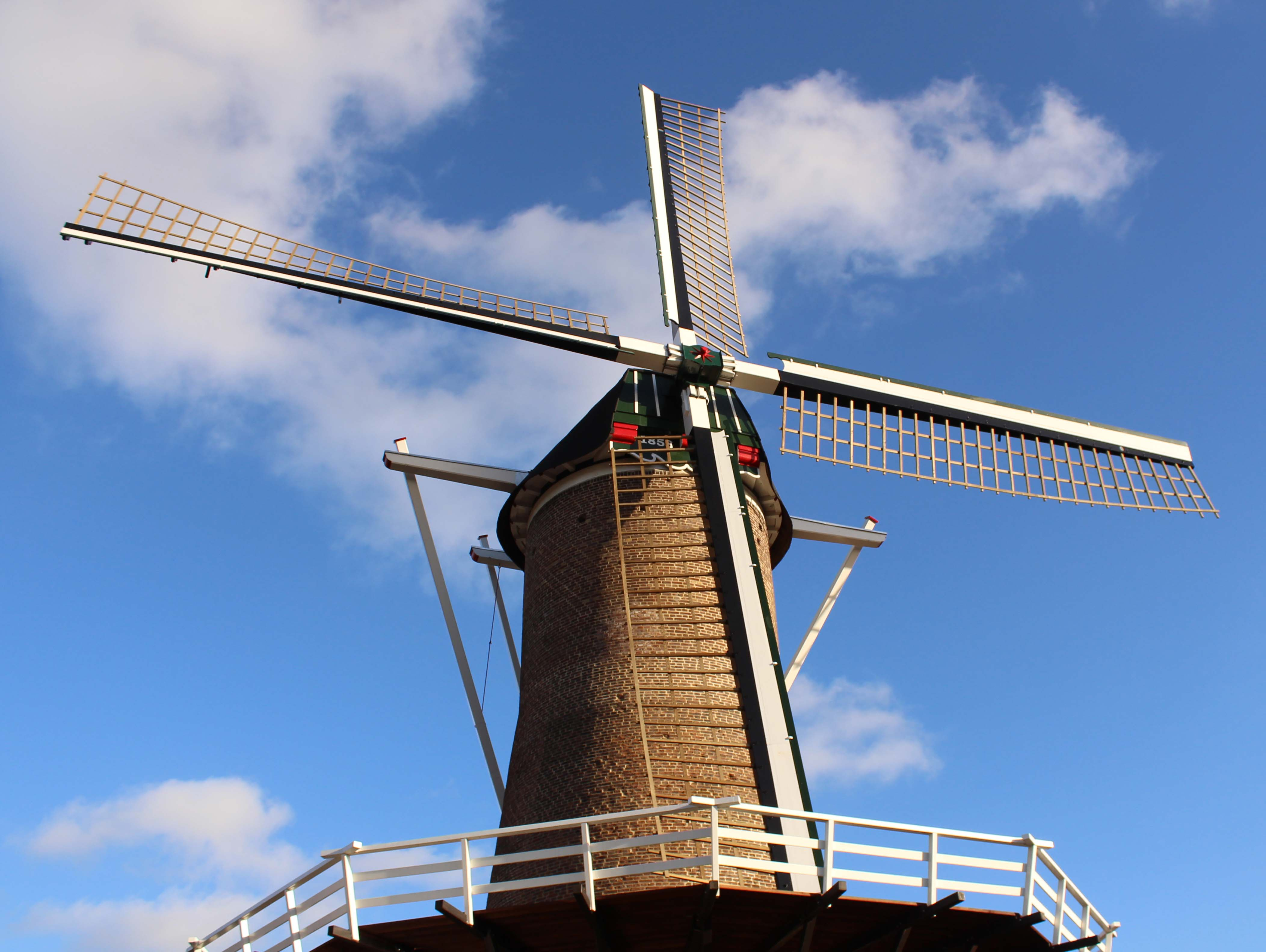 Windmill 'Renkumse Molen'